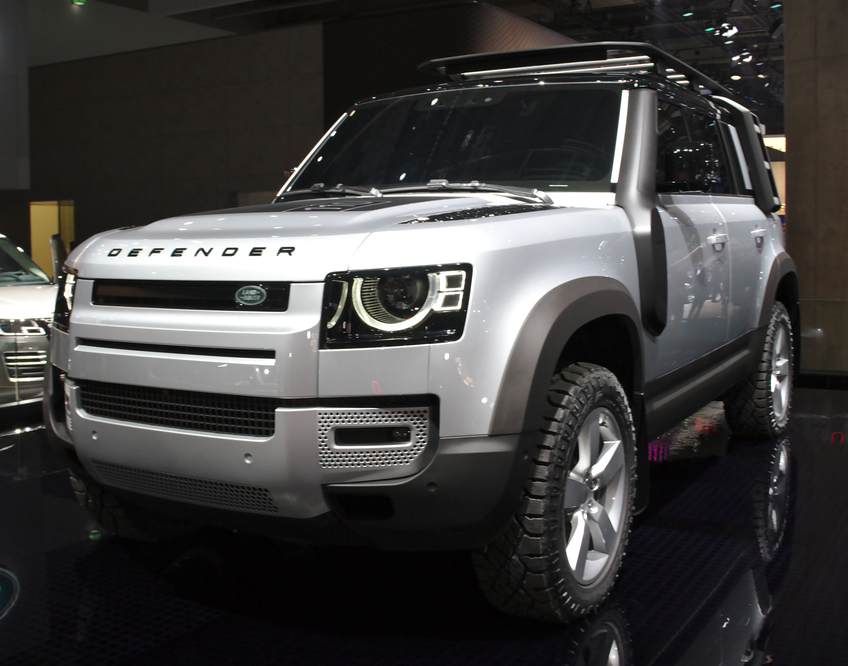 Land_Rover_Defender_(L663) at IAA 2019